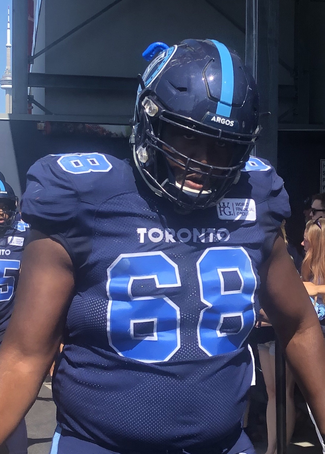 Shane Richards, offensive lineman for the Toronto Argonauts.